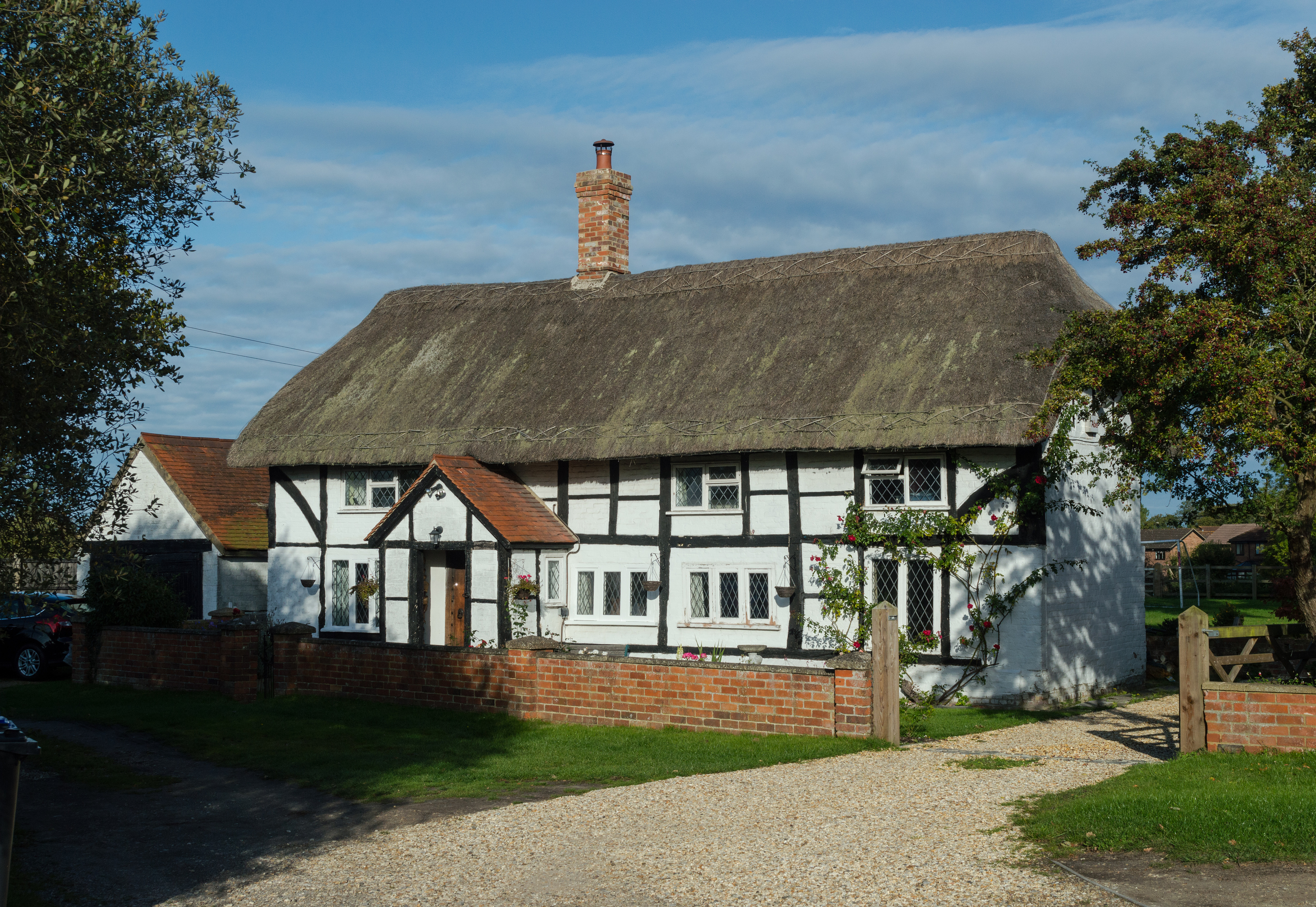 Firgrove Farm Cottage, Yateley Wikidata has entry Q26624070 with data related to this item.